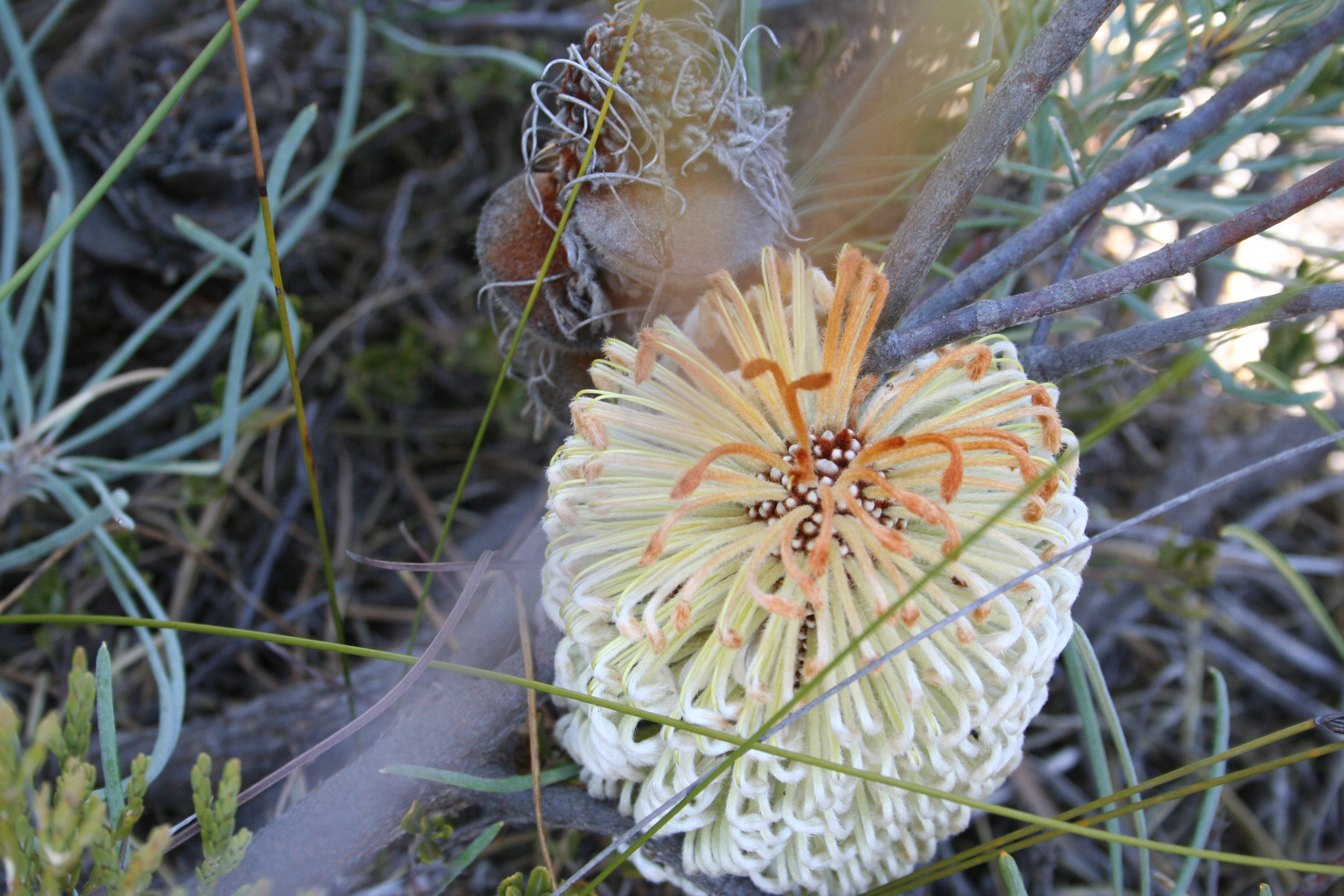 Banksia grossa, inflorescence in bud and old cone - north of Badgingarra